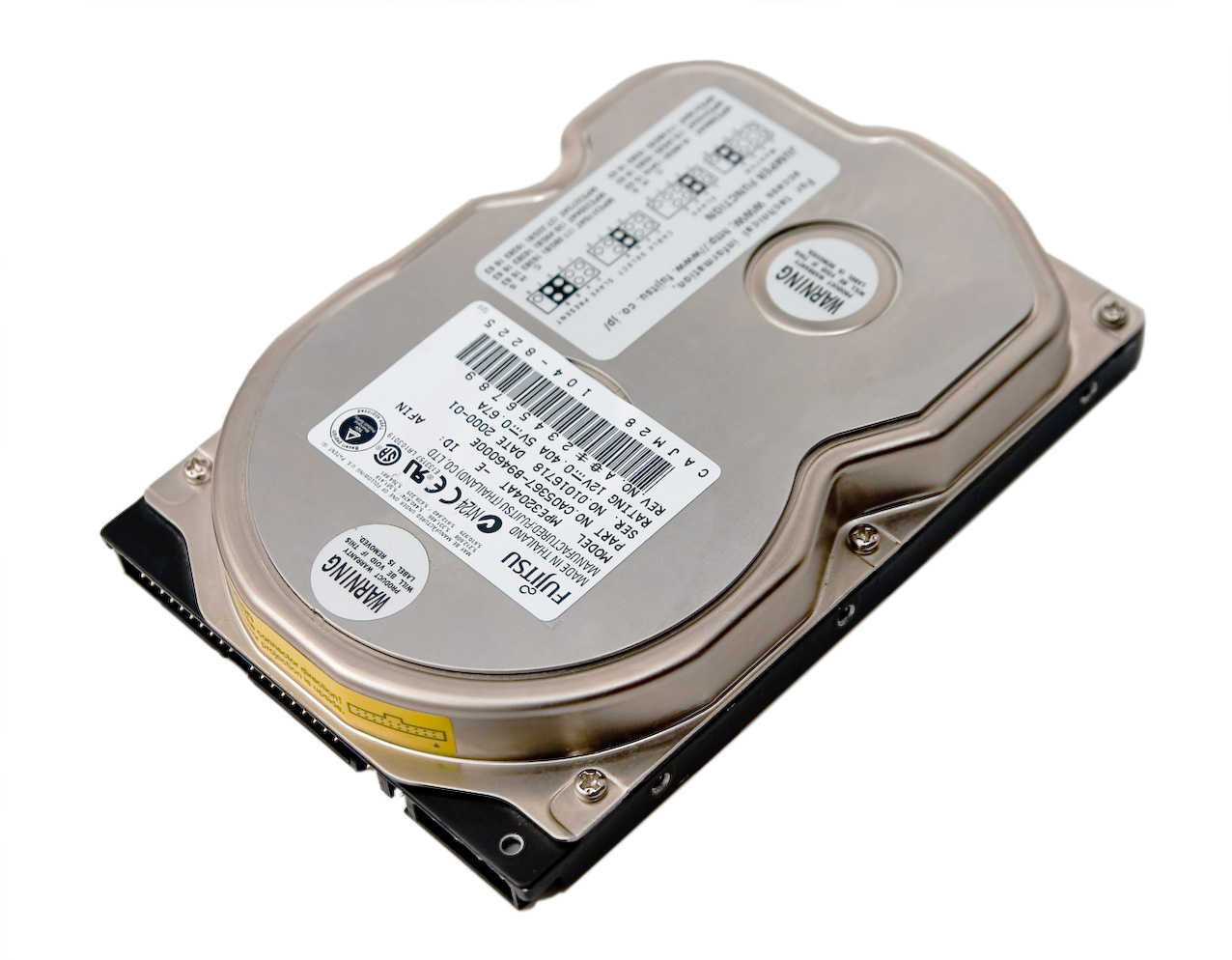 Fujitsu hard disk drive from ~2000. The storage capacity of this disk drive is 20 GB. The picture is created by User:PJ and User:Piko using the Canon EOS 300D camera with the Tamron 28-75 mm f/2.8 lens.